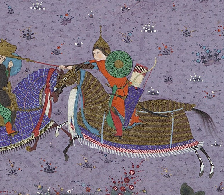 While Afrasiyab fights at Dahistan, a supplementary force is detailed to attack Zabul, home of Zal, of which Mihrab has been left in charge. Through bribery and persuasion, he keeps the Turanians at bay. An urgent message reaches Zal, who returns immediately with his army. He soon dispatches Khazarvan, one of the Turanian commanders, by smashing him on the head with his ox-head mace, then trampling him to death; Painting attributed to 'Abd al-Vahhab